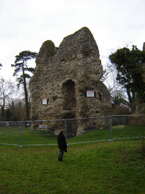 Odiham Castle. Built by King John in 1216. He stayed there on the way to sign the Magna Carta.